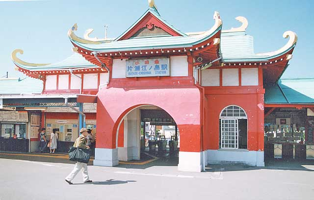 Katase-Enoshima Station Train station Odakyu Electric Railway Fujisawa, Kanagawa Japan. User:Fg2 took this photograph and contributes it to the public domain.